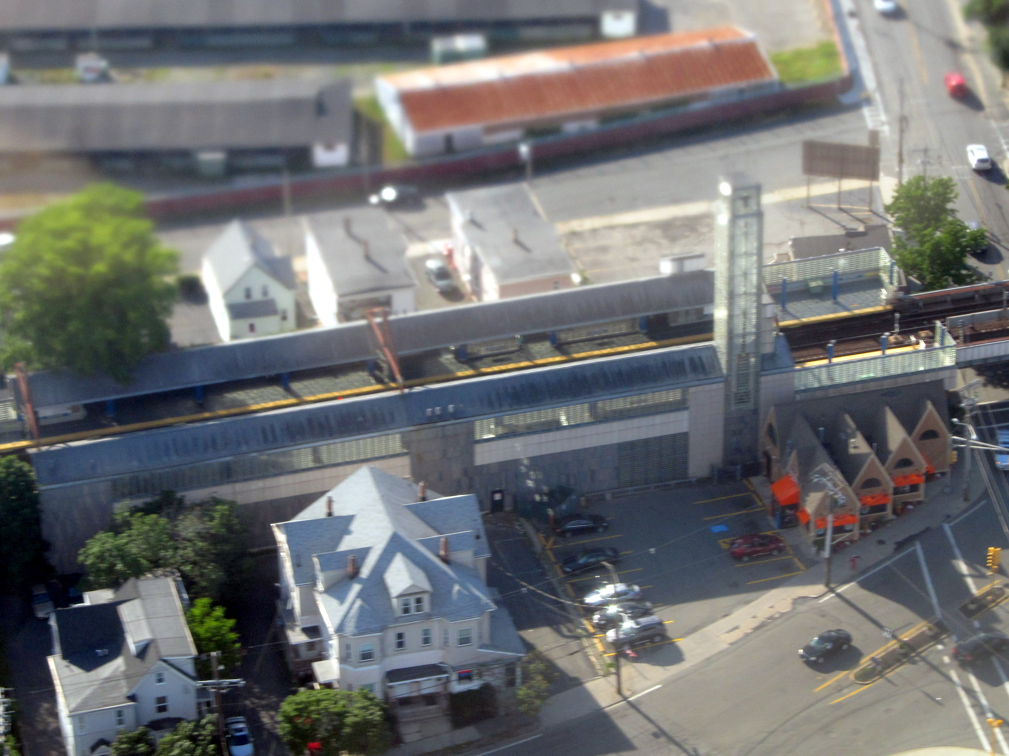 Aerial view of Beachmont station in July 2016